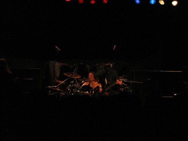 Ruins (black metal band) during their 2008 tour with Immortal at the Sydney show.